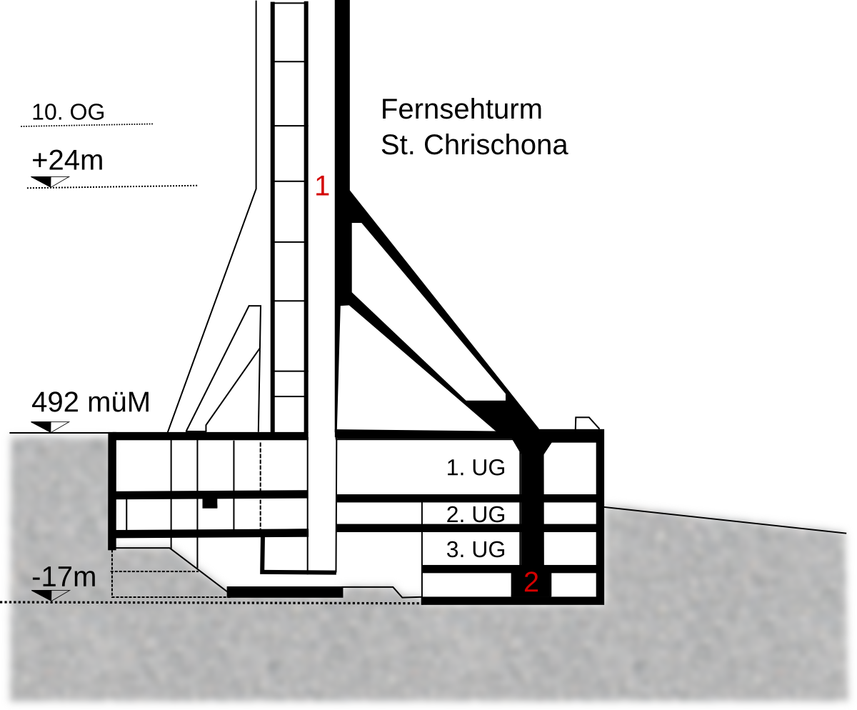 Television Tower St. Chrischona: vertical cross section of foundation block and lower part, (1) shaft for lift and cable (2) foundation structure